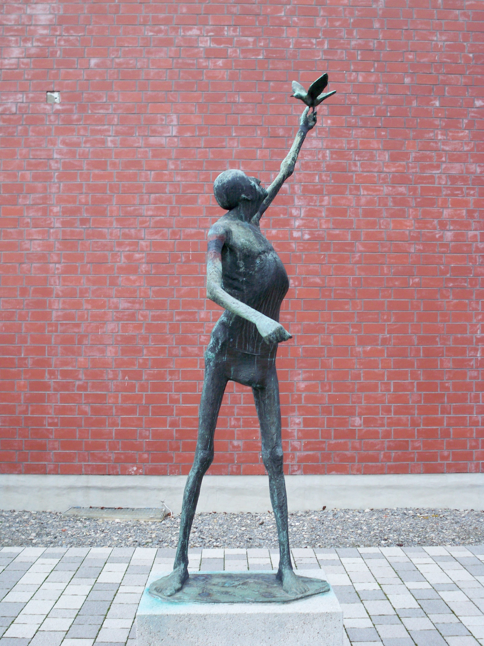 Wolfsburg, Lower Saxony, bronze sculpture by Waldemar Otto of Noah with dove, in front of the former "Arche", now youth hostel, the dove was stolen in 2015 und has not been replaced